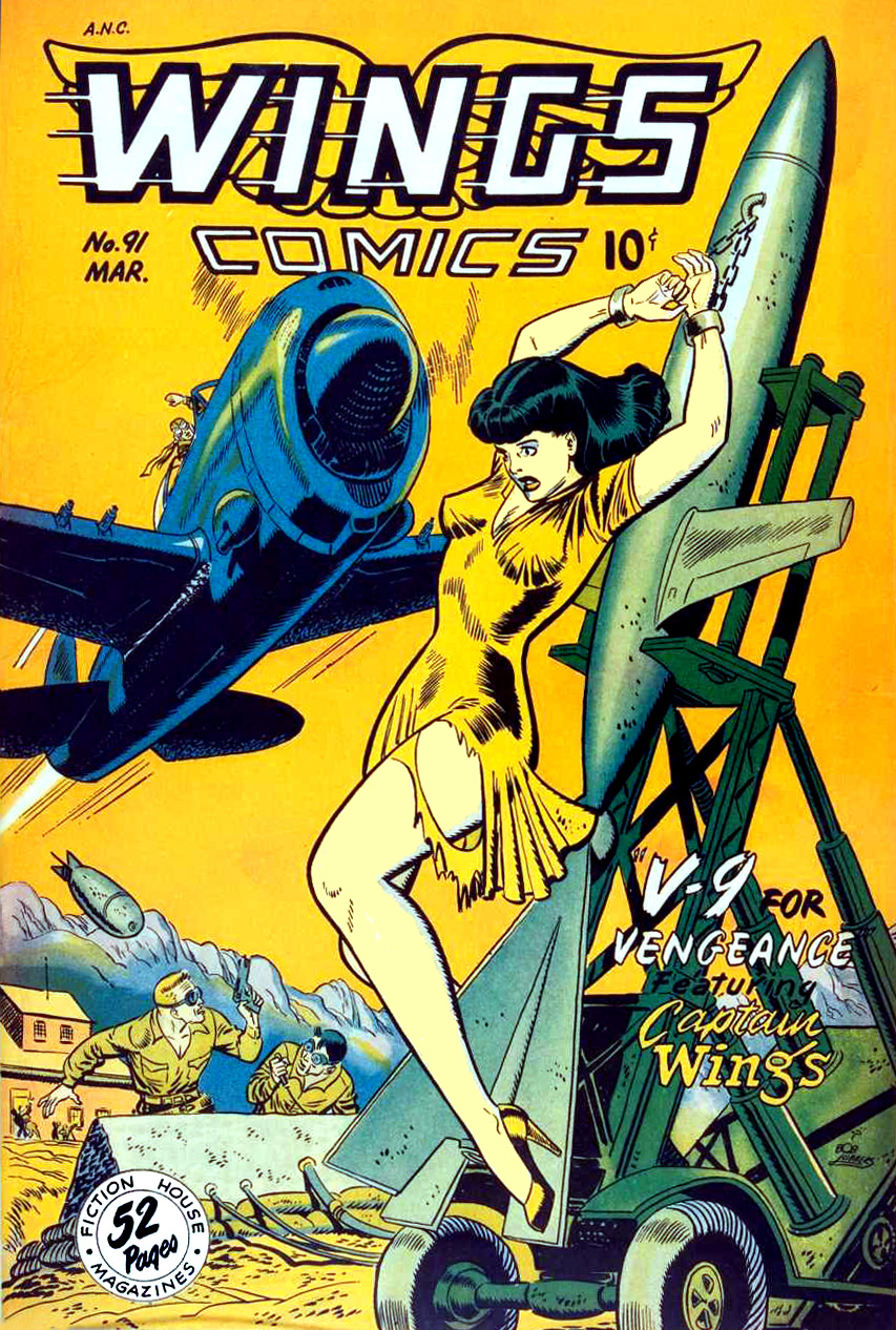 Three years after the war ended, Captain Wings was still gunning for revenge. Fiction House was well known for its pin-up style artwork and voluptuous heroines.